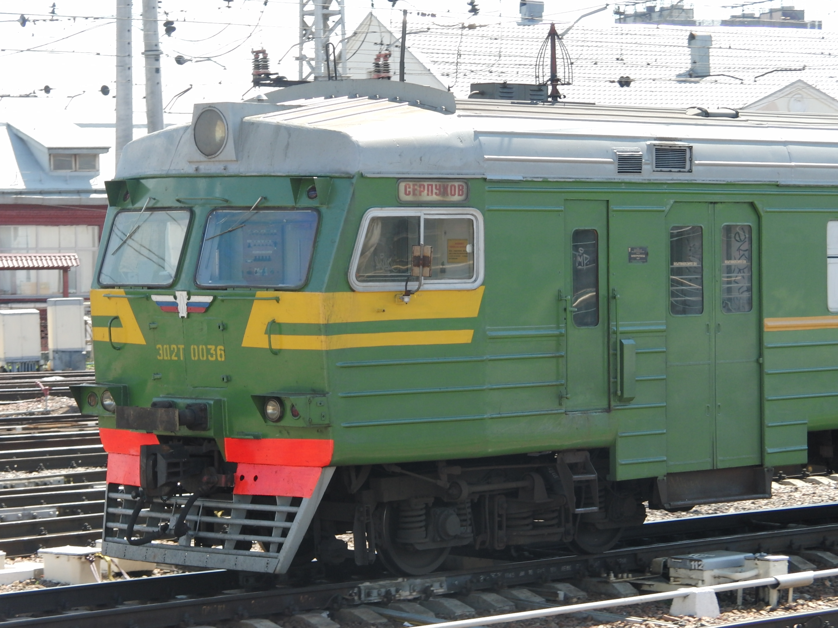 Kursky rail terminal, electrichka ED2T-0036 to Serpukhov